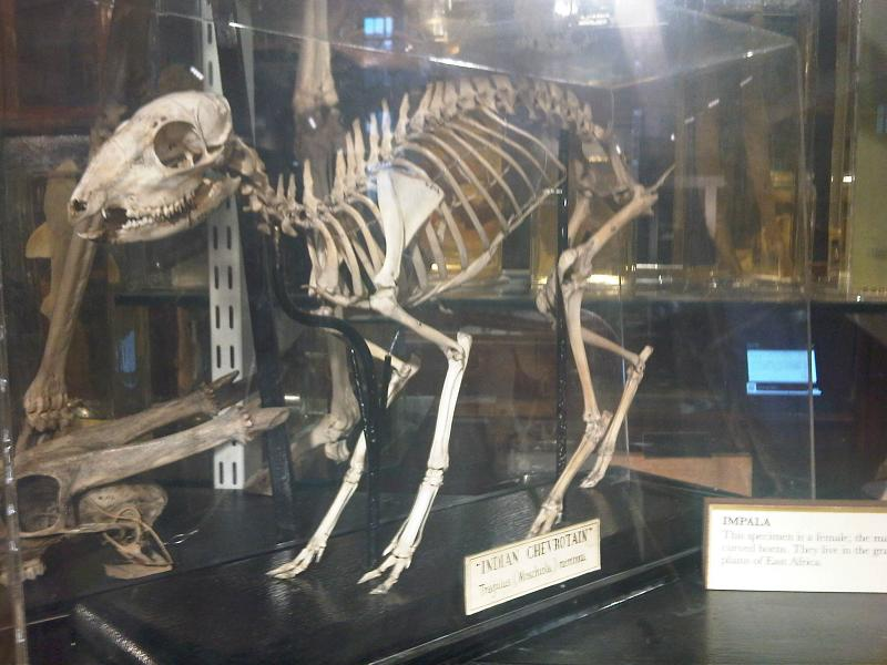 Indian Spotted Chevrotain (Moschiola indica) skeleton in Grant Museum of Zoology, London, England.